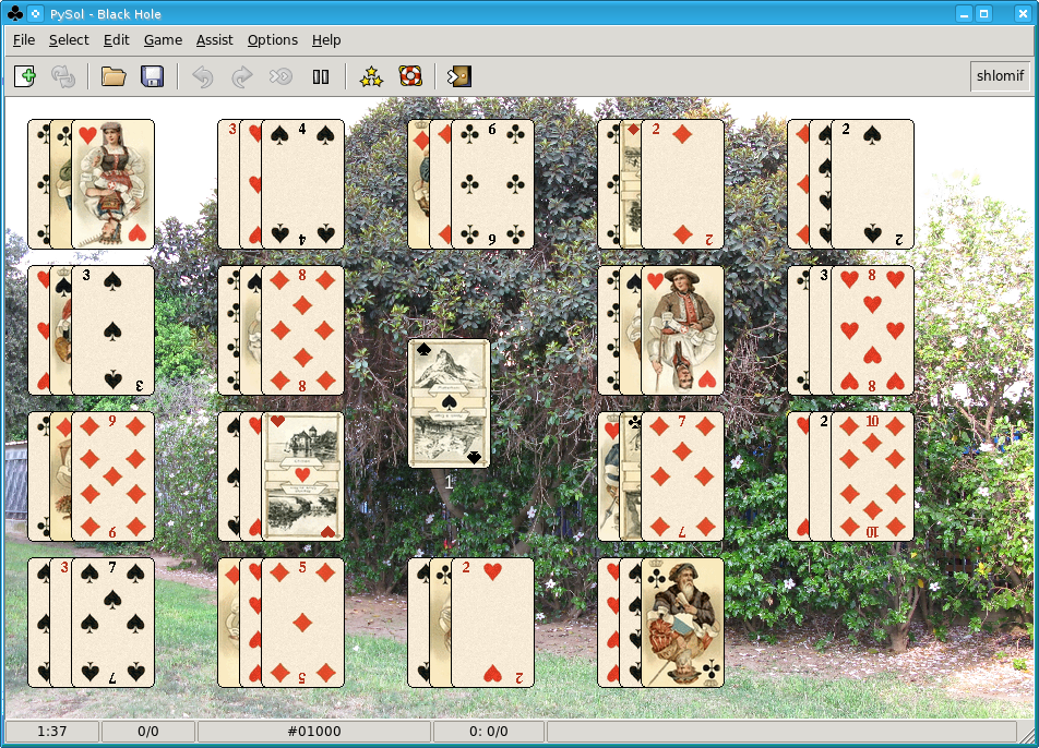 This is a screenshot of PySolFC's Black Hole Solitaire Deal No. 1,000 with a custom, public domain (CC-Zero) tabletile, that is available here: (and it was taken by me and it is original artwork). This is PySolFC version 2.0 which is licensed under the GNU General Public License version 3.0.